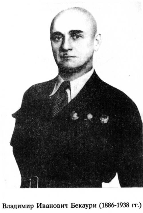 Vladimir Ivanovich Bekauri (1882-1937) directed the Special Technical Bureau from 1921 and created many types of armaments for the Red Army.